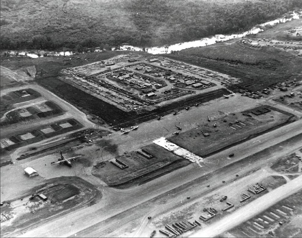 Aerial photo of Dak To base of 1st Bde, 4th Inf, Div., Vietnam, ca. 1967